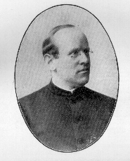 Carl Braig